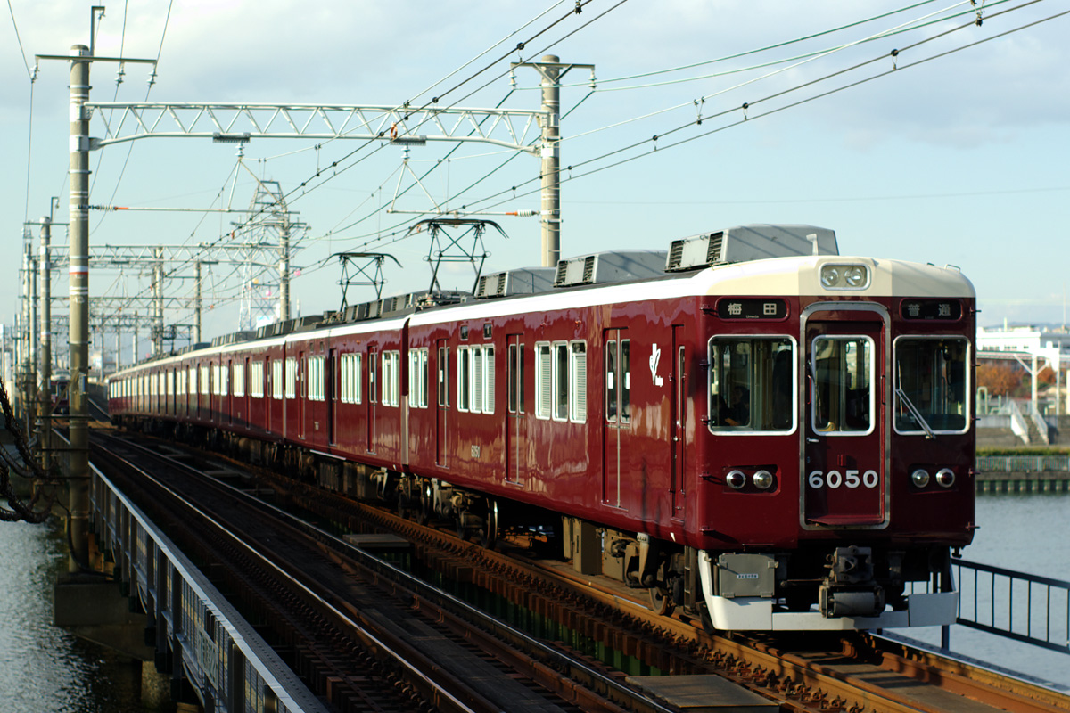 Hankyu Railway 6050